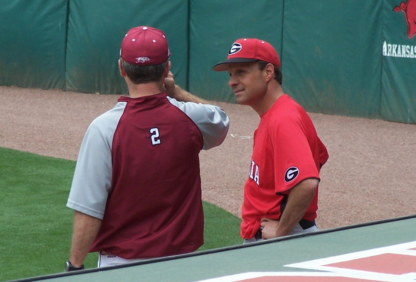 David Perno (facing camera), baseball manager for the University of Georgia Bulldogs, and Dave van Horn, baseball manager for the University of Arkansas Razorbacks, converse prior to a game in Baum Stadium, Fayetteville, Arkansas, USA.